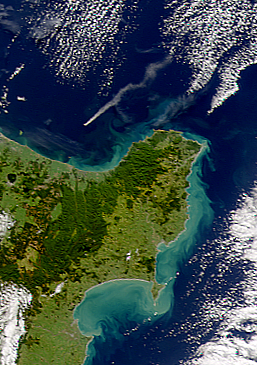 This SeaWiFS satellite image shows a long eruption plume coming from the White Island volcano in the Bay of Plenty, New Zealand on June 14, 2000. Considerable turbidity is also evident along the North Island's east coast.